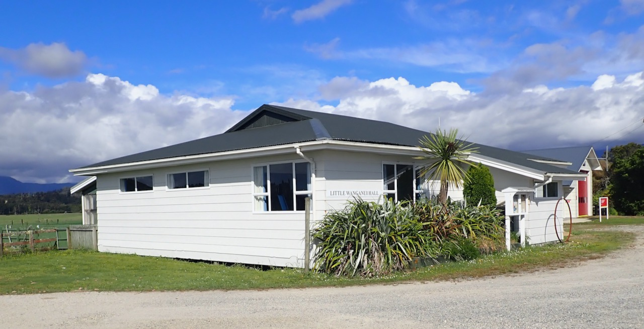 Community Hall at Little Wanganui, Buller District, West Coast, New Zealand; opened in 1954.